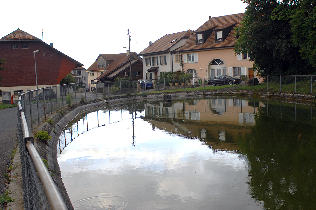 Chamblon